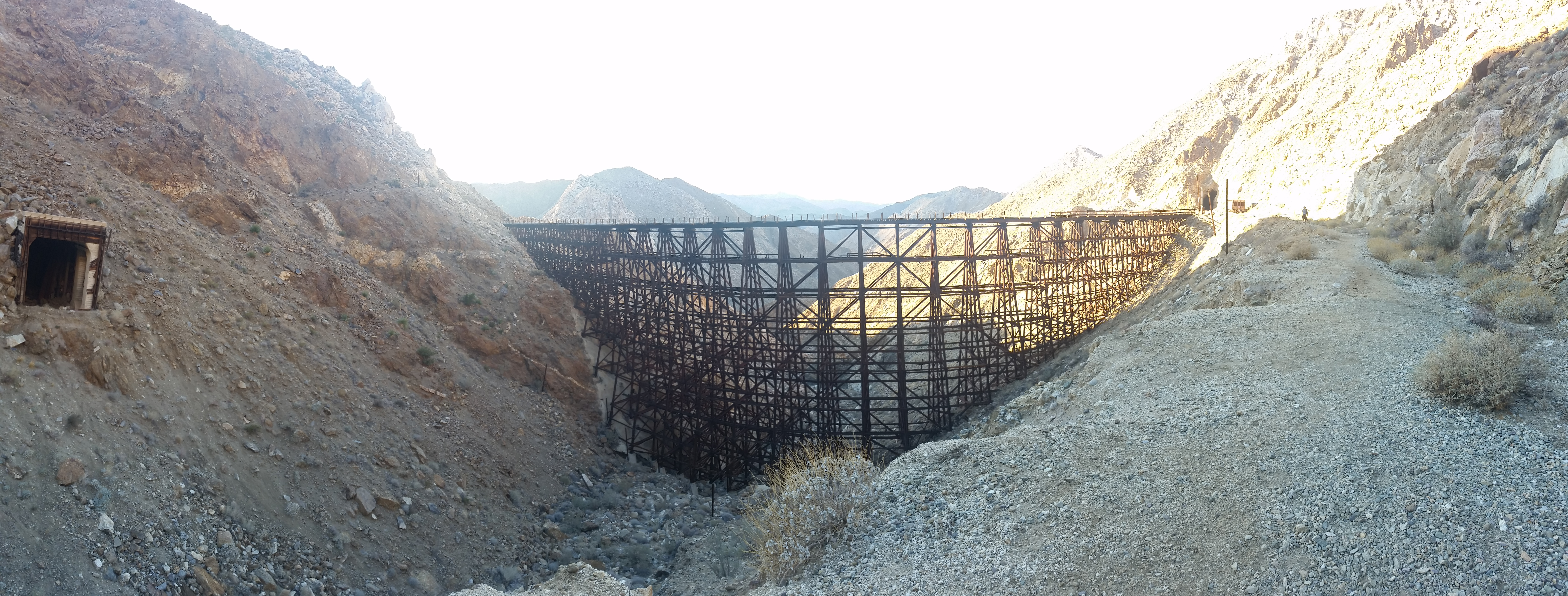 Panoramic photograph of Goat Canyon Trestle and Tunnel 15, which it replaced